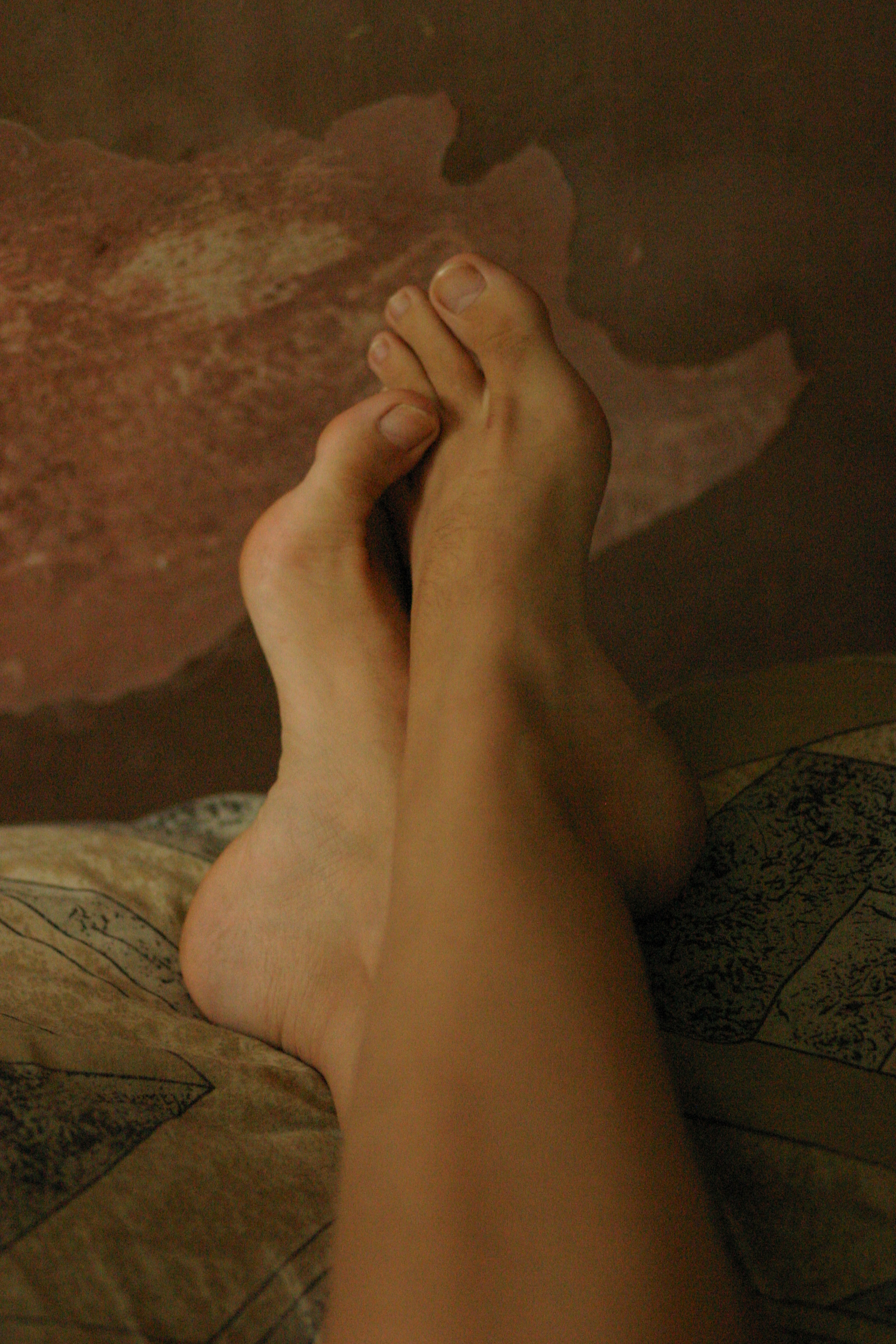 The most beautiful feet.